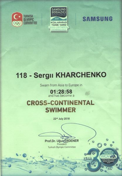 S.Kharchenko Certificate Cross-Continental Swimmer